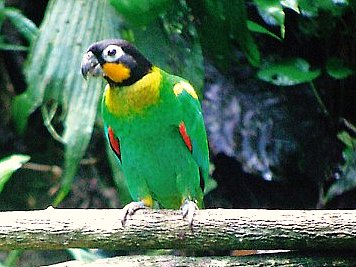 Orange-cheeked Parrot at Napo Wildlife Reserve, Ecuador.